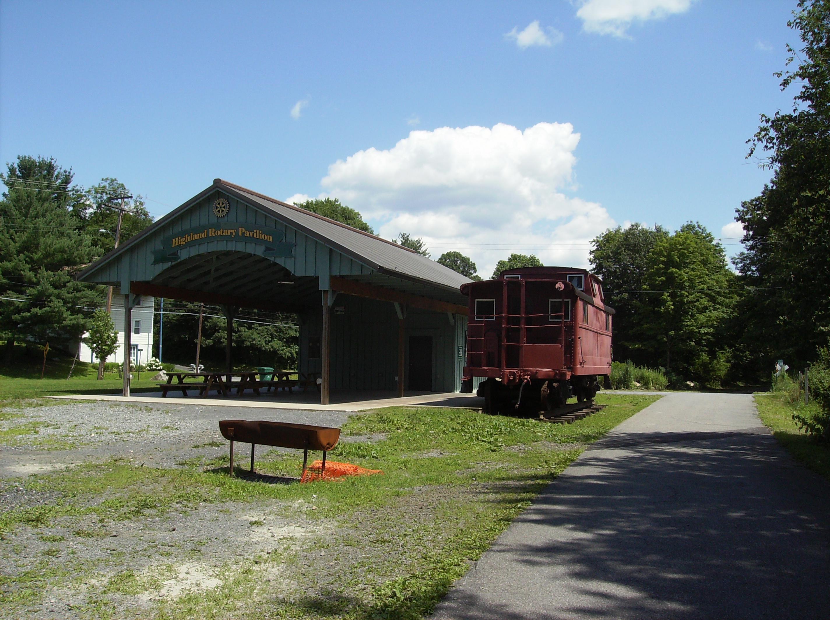 Welcoming depot for the Hudson Valley Rail Trail in the hamlet of Highland in the town of Lloyd, New York.